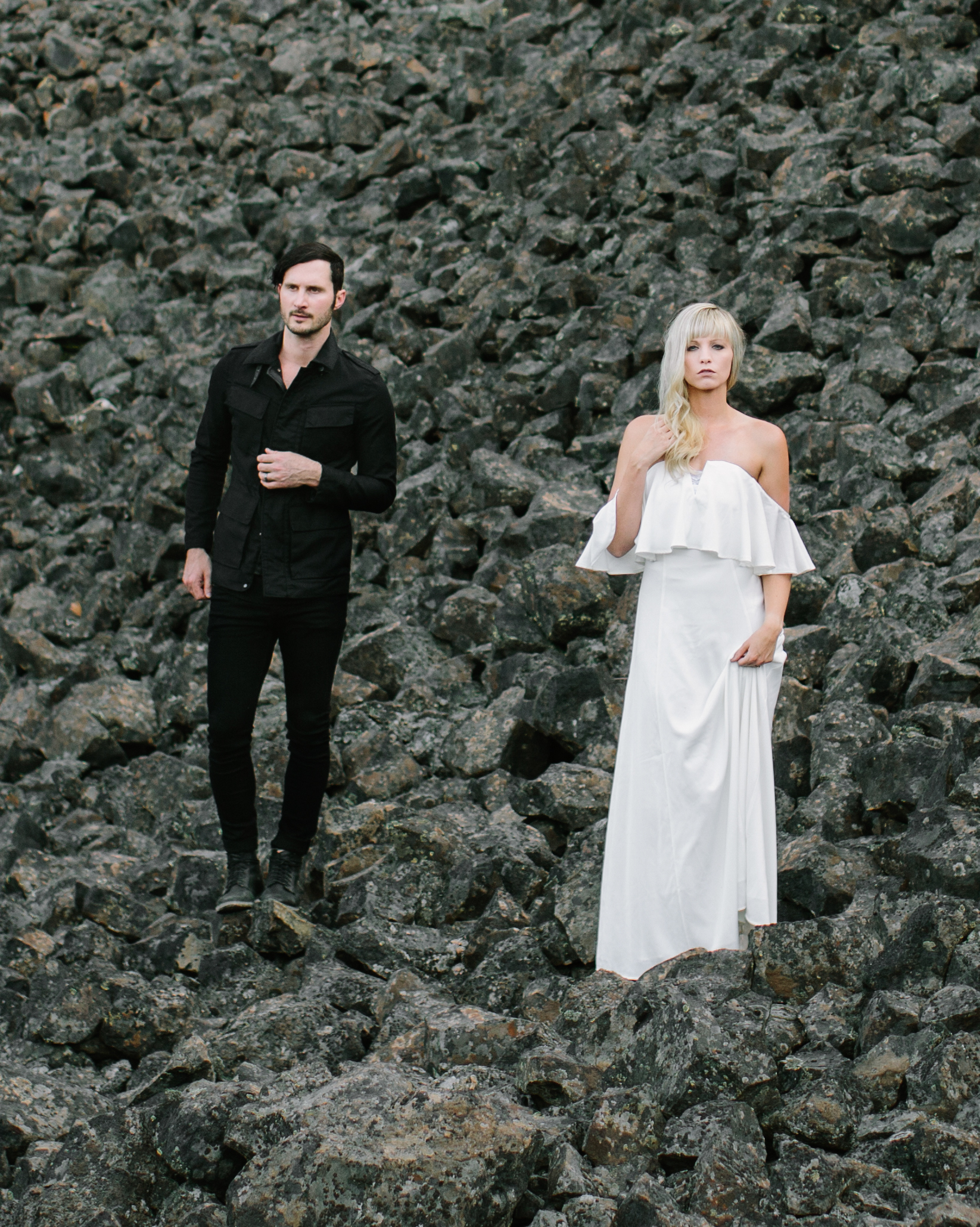 3x4 crop of The Sweeplings - Black Shoot-26.jpg